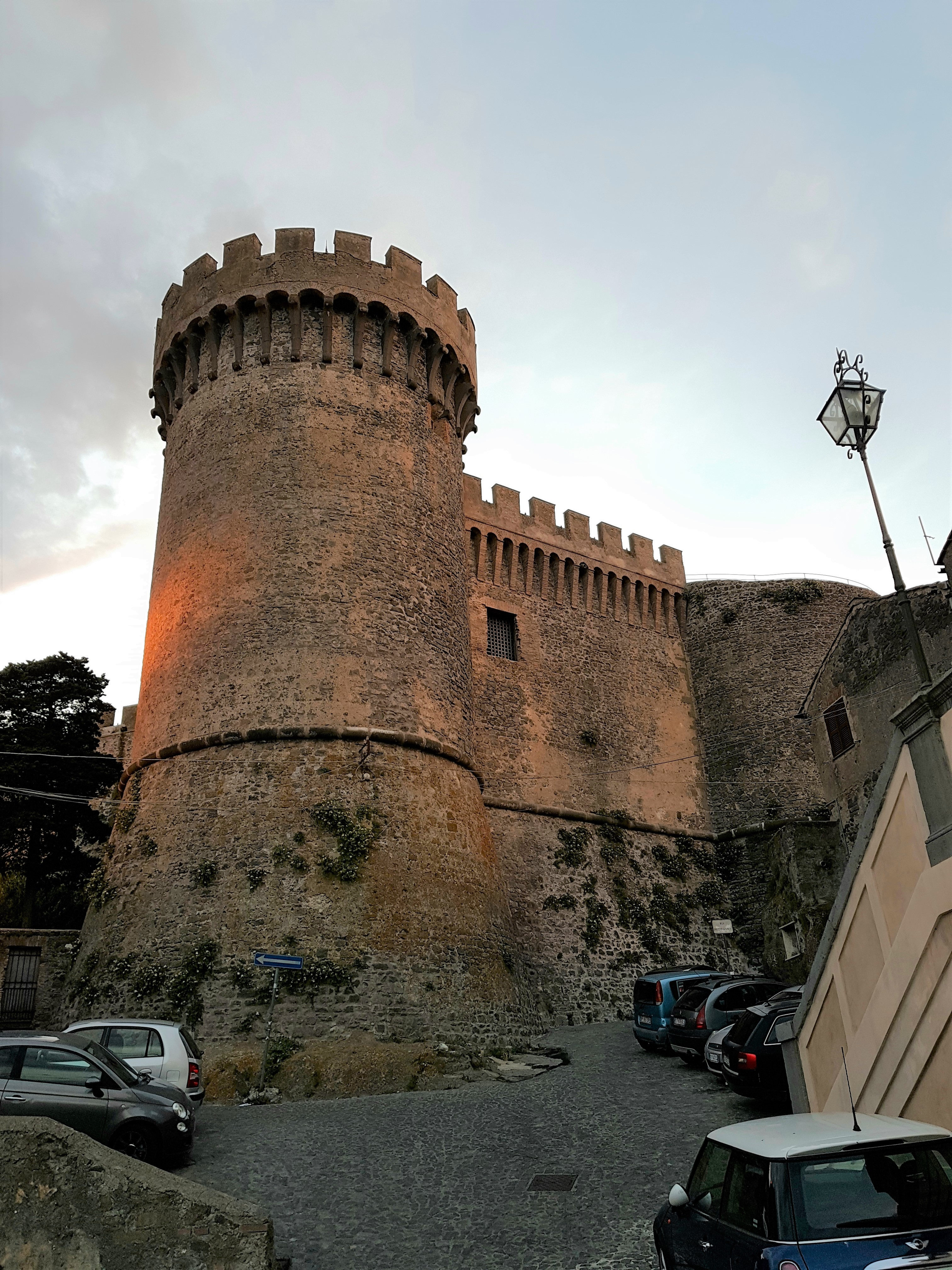 Uno scorcio del castello.